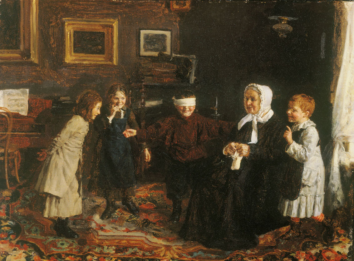 Blind man's bluff